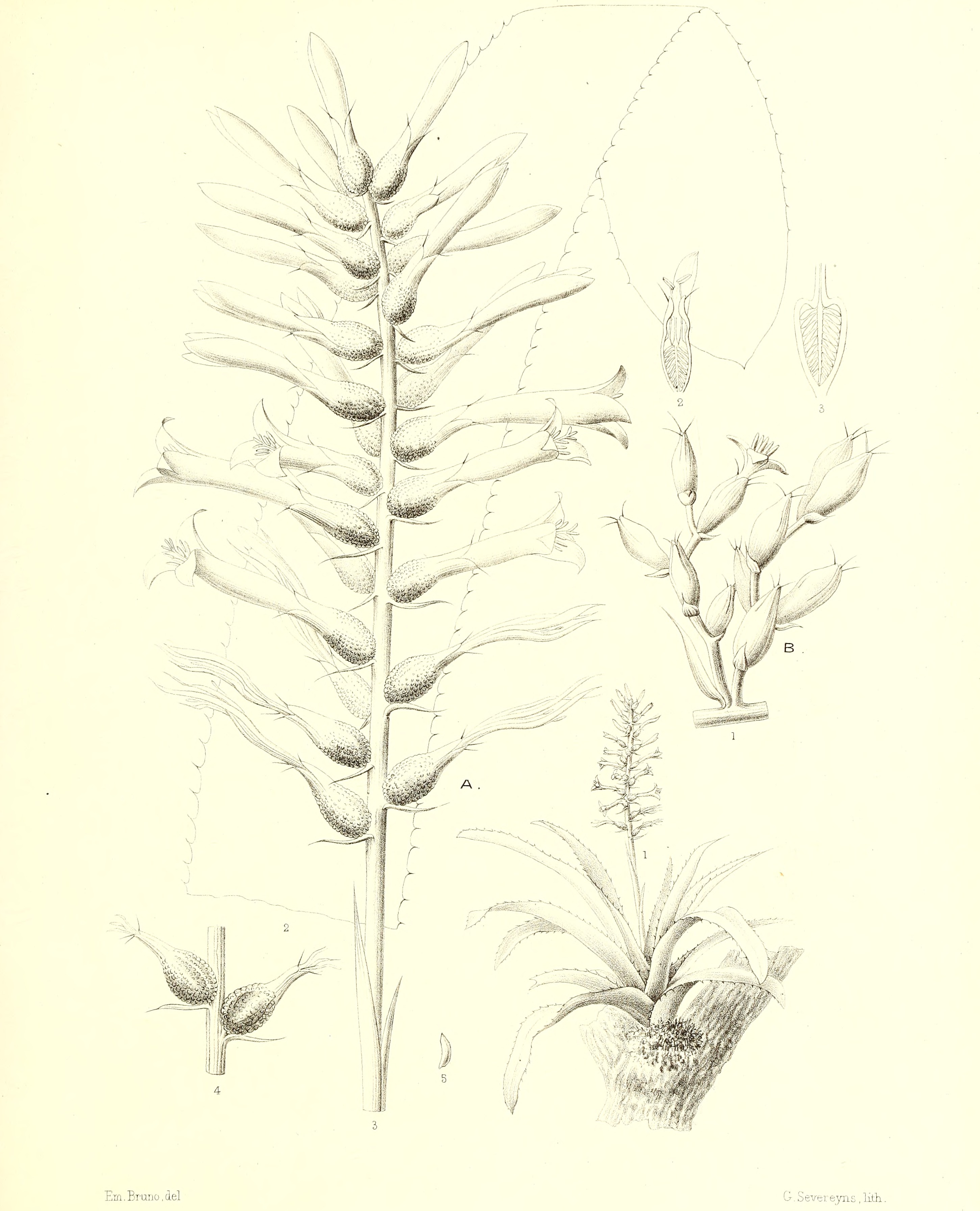 Title: Bromeliaceae andreanae : description et histoire des broméliacées récoltées dans la Colombie, l'Ecuador et le Venezuela Year: 1889 (1880s) Authors: André, Edouard François, 1840-1911 Subjects: Bromeliaceae; Botany Publisher: Paris : Librairie Agricole Text Appearing Before Image: BROMELIACEE ANDREAN/E PL V I Text Appearing After Image: A. AL C H M E A DRAKEANA, Ed And ré B . COLUMNARIS , E . A